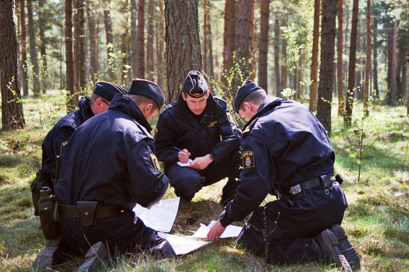 Swedish Reserve Police